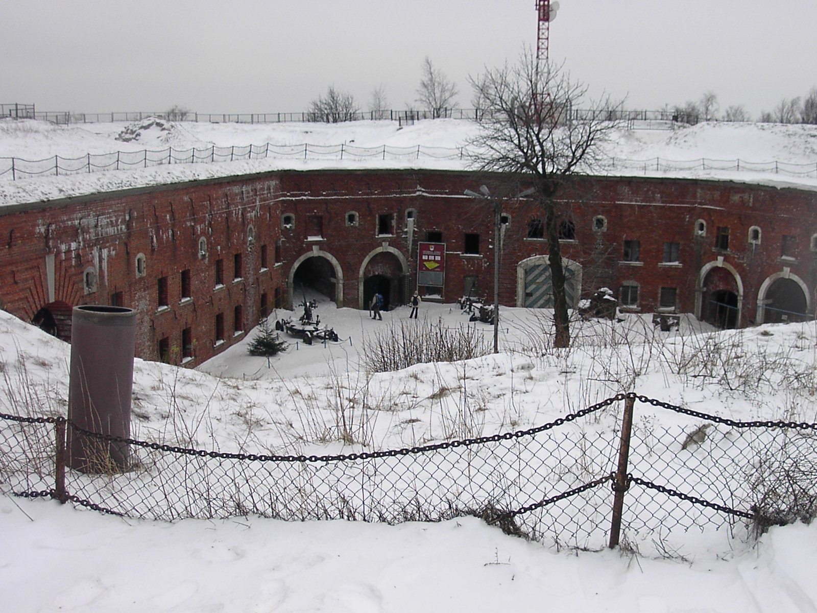 Fort Donjon, Srebrna Góra, Poland, 2004 yr. Aparat/Camera: Premier DC-2350